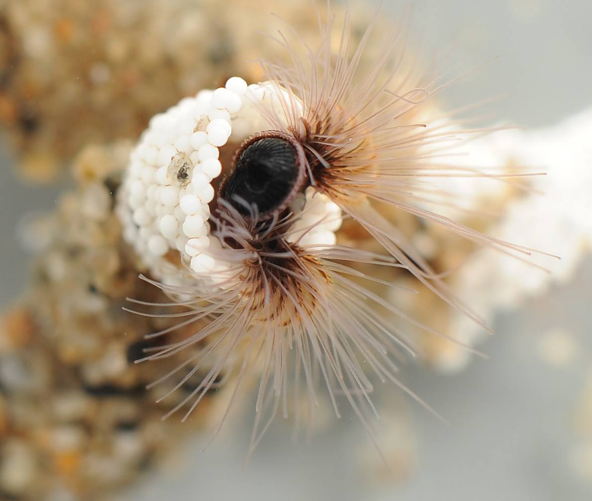 A sandcastle worm (Phragmatopoma californica) in the laboratory of Russell Stewart, University of Utah, making a tube out of sand (yellow) and beads of zirconium oxide (white).